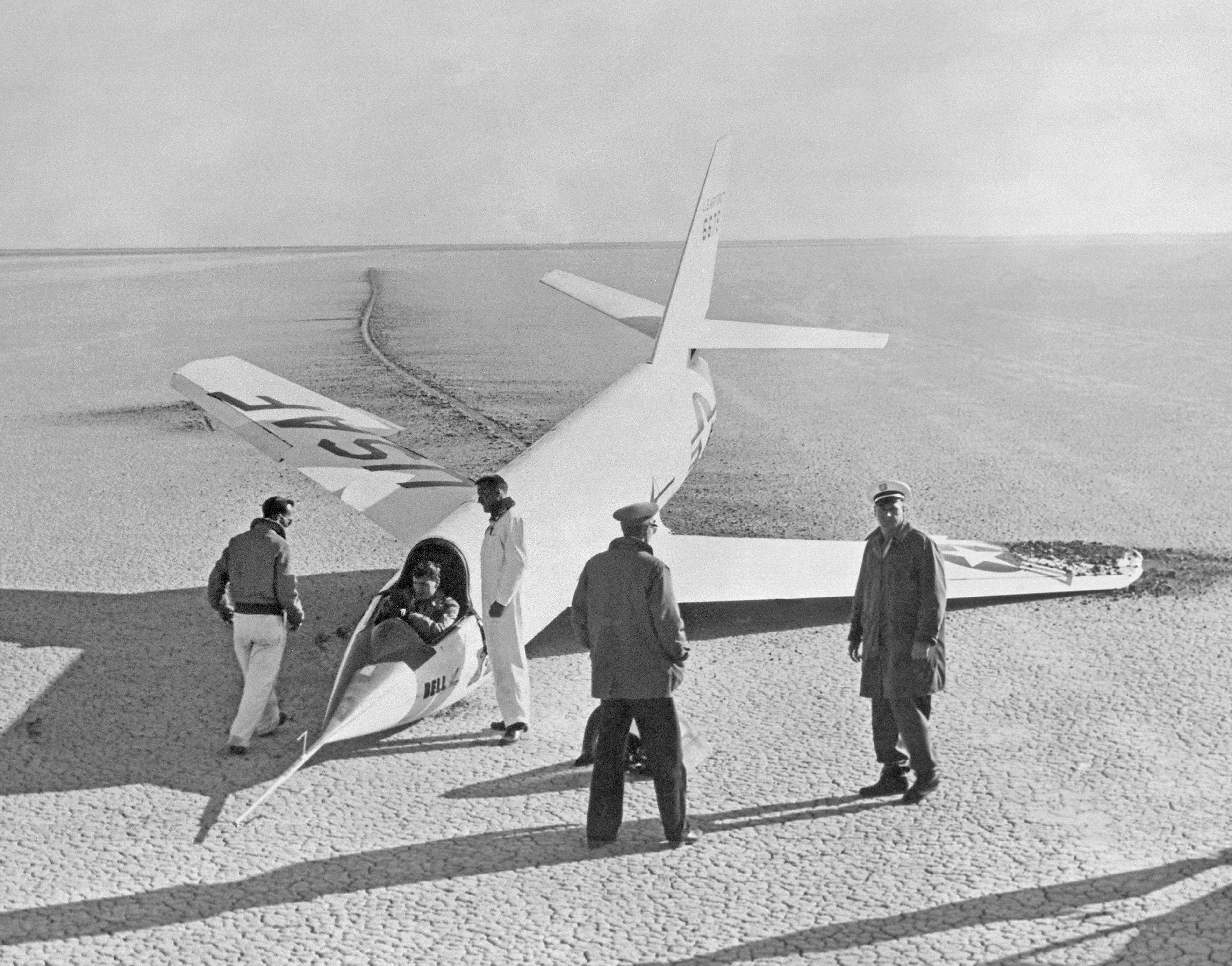 This 1952 photograph shows the X-2 #2 (46-675) with a collapsed nose landing gear, after landing on the first glide flight at Edwards Air Force Base. The aircraft pitched at landing, slid along its main skid, and contacted the ground with the right wingtip bumper skid, causing it to break off. The nose wheel had collapsed upon contacting the ground. In the photo, Bell test pilot Jean Ziegler is still in the cockpit as ground crewmen stand by the aircraft. The X-2 #2 was subsequently destroyed in an explosion during captive flight on May 12, 1953, killing Ziegler and EB-50A crewmember Frank Wolko.